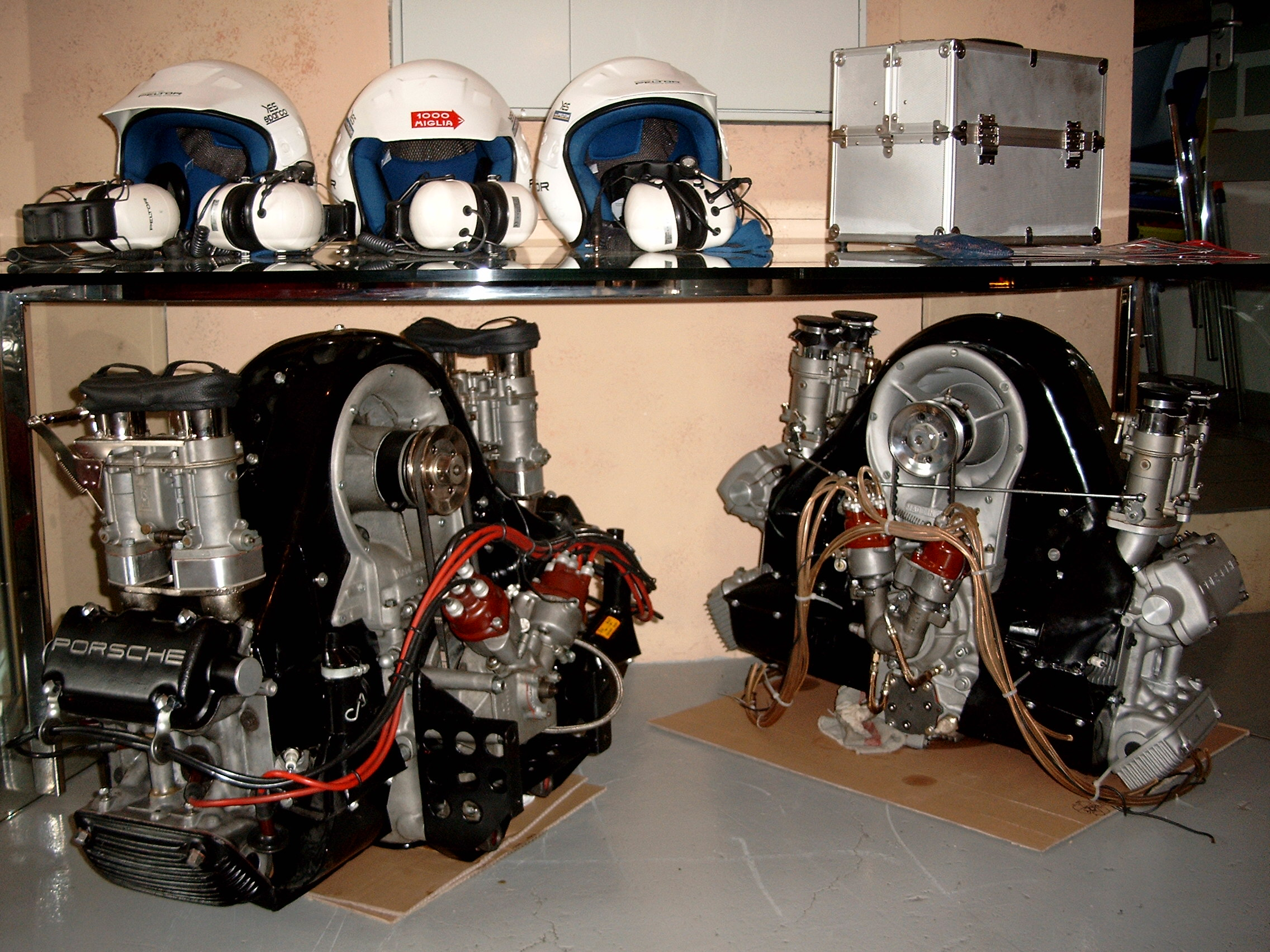 Picture shows two Fuhrmann engines, developed by former Porsche engineer and later CEO Ernst Fuhrmann. Engine has been used in several Porsche cars such as 904, 718 and others.